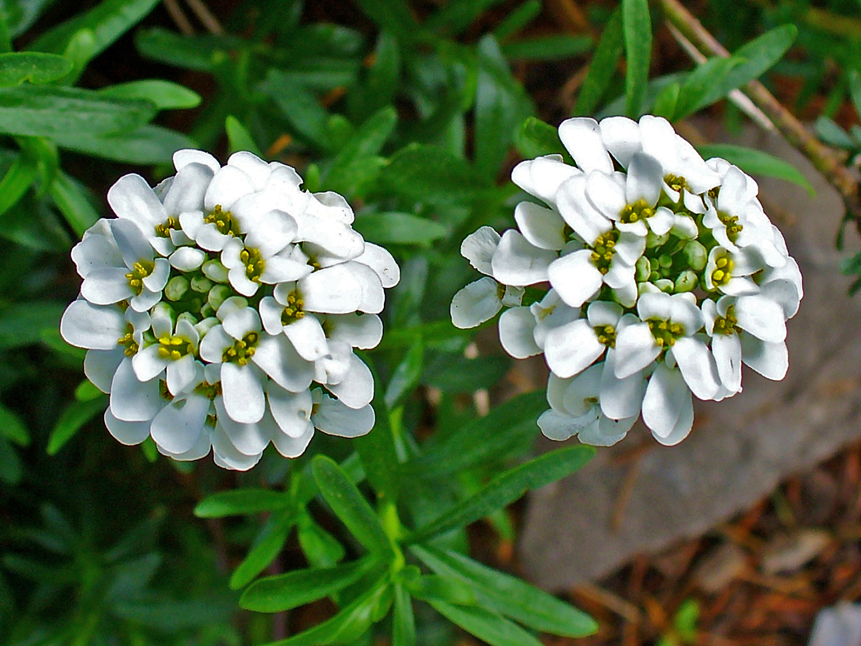 Iberis sempervirens, Brassicaceae, Evergreen Candytuft, inflorescences; Botanical Garden KIT, Karlsruhe, Germany.